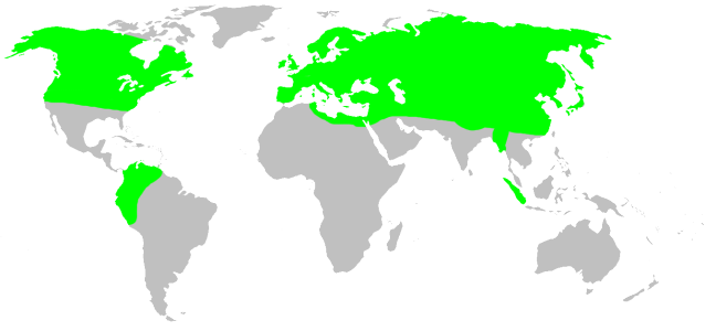 Cybaeidae habitat distribution, drawn after Platnick: World Spider Catalog 7.0. This is not at all a precise rendering of the distribution! If you have better information, please replace this map, or send me the info, and i will redraw it.